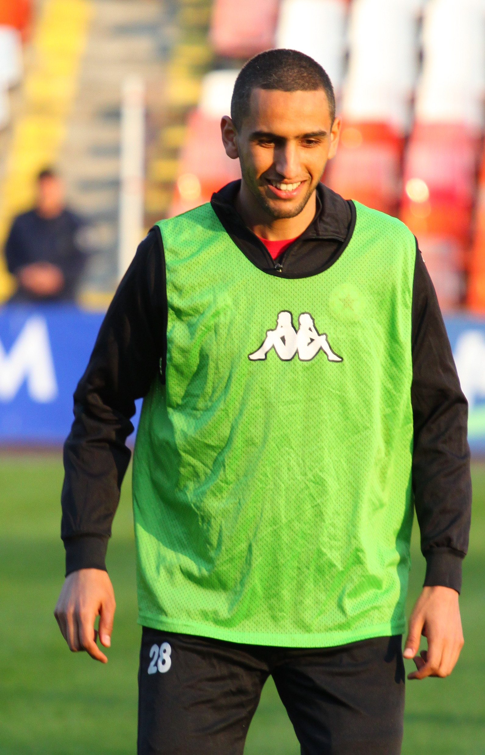 Ilias Haddad (born 1 March 1989 in Nador) is a Moroccan footballer who plays for CSKA Sofia as a defender. Haddad holds both Dutch and Moroccan nationality and can play either as a central defender or defensive midfielder.